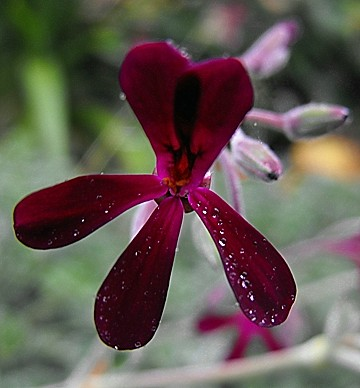 Pelargonium sidoides at Quail Botanical Gardens in Encinitas, California, USA. Identified by sign.